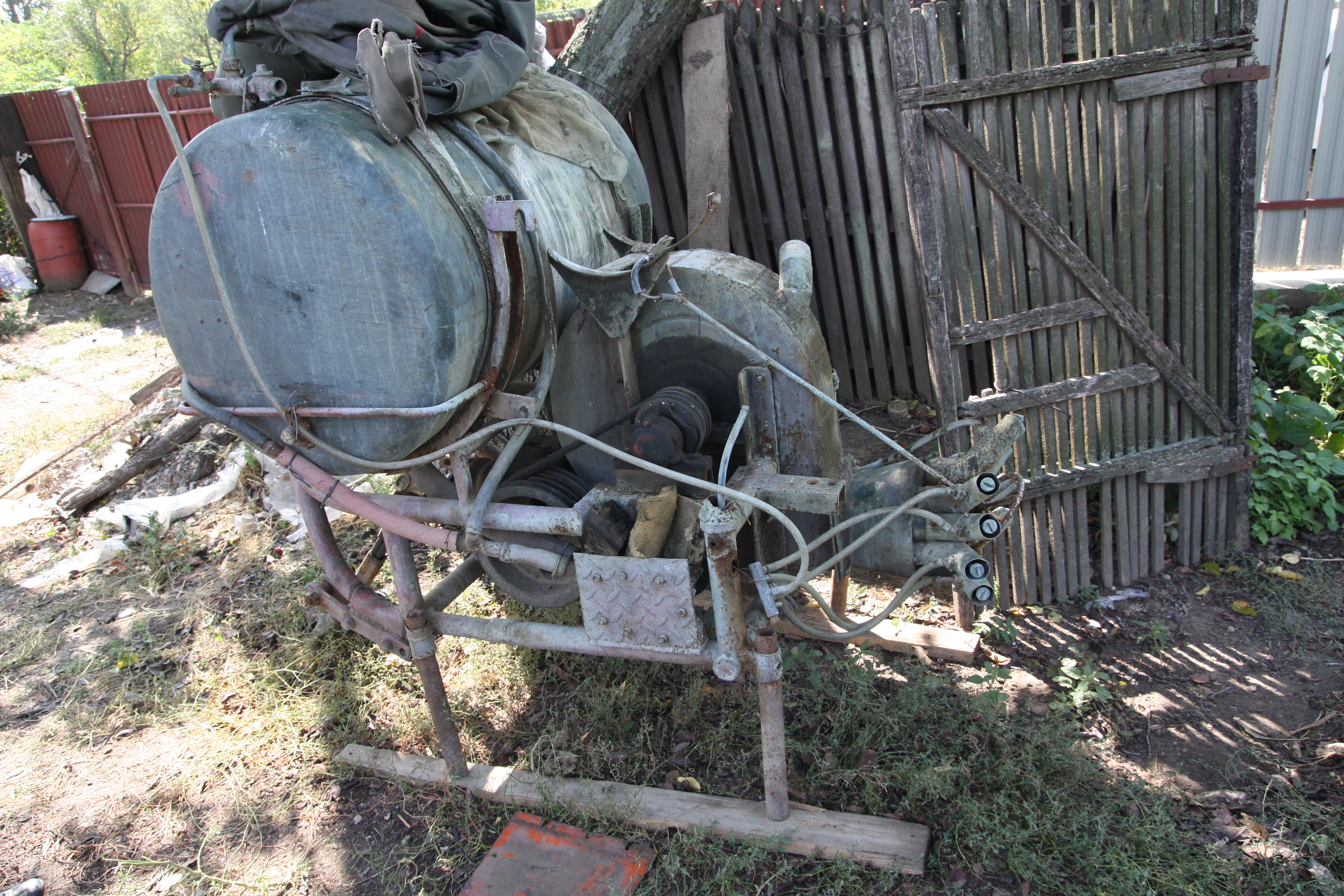 Agricultural Sprayer in Vrancea County Romania